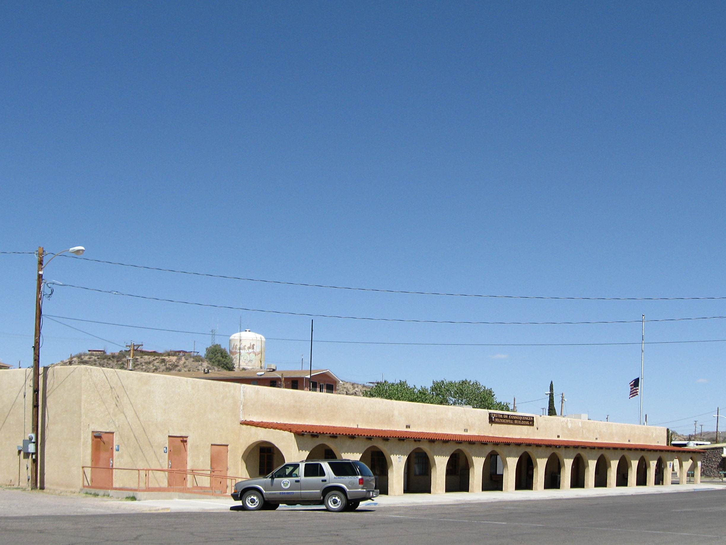 City Hall (Municipal Building) of Truth or Consequences, New Mexico, located at 505 Sims Street.